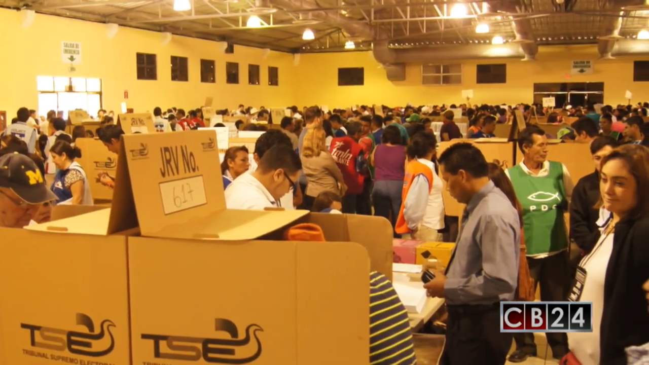 Voters in El Salvador voting at a polling station, with the Supreme Electoral Court logo showing on the cardboard voting booths and the polling station number on top